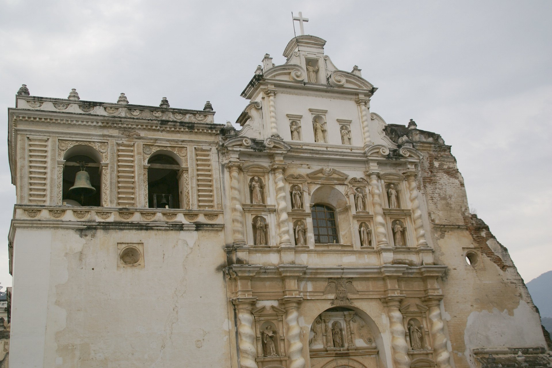 Facade of San Francisco Church in Antigua Guatemala (picture processed for lighter)